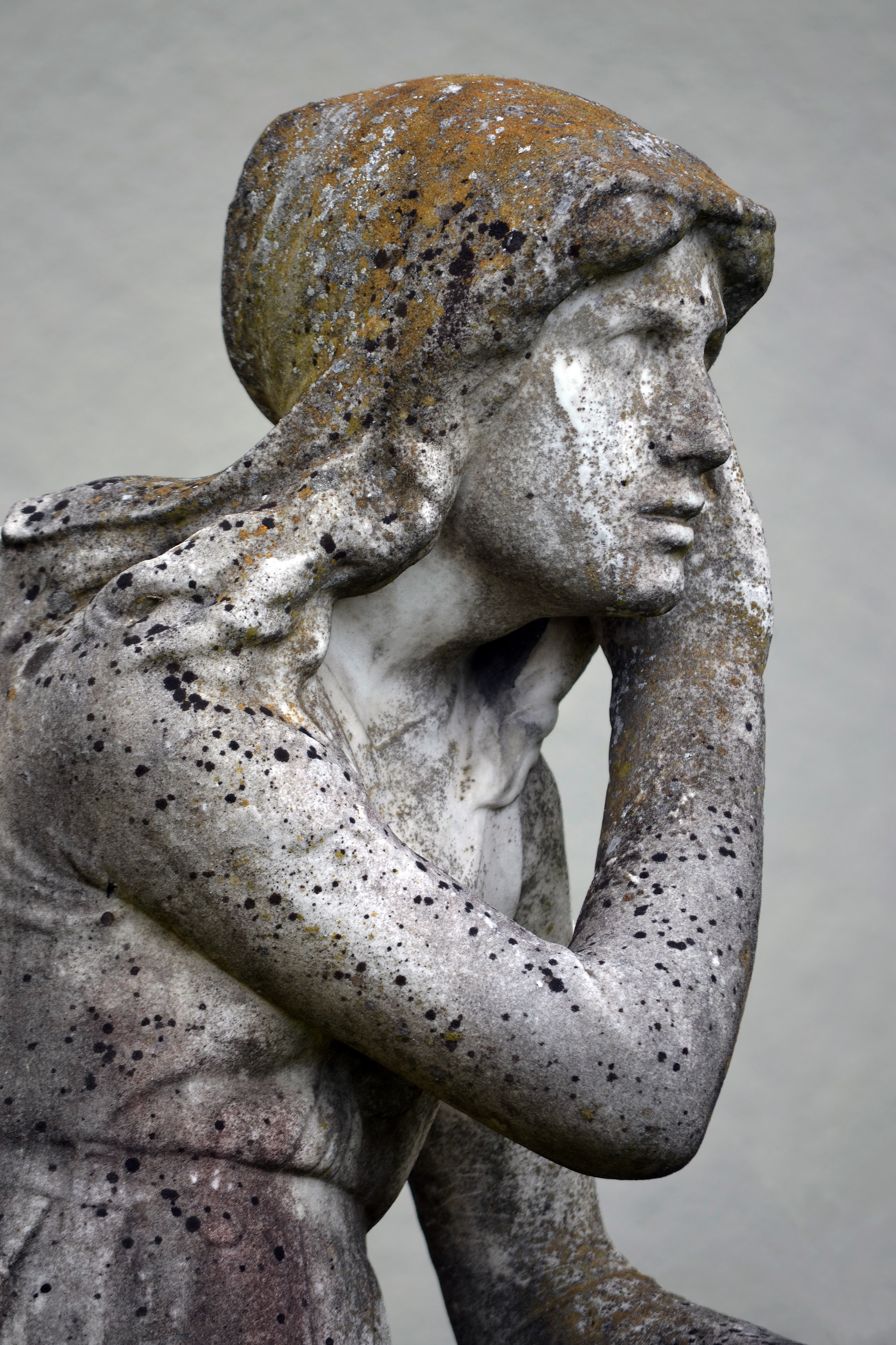 Jeanne listening to her voices by Georges Clère, Châteaudun museum, France